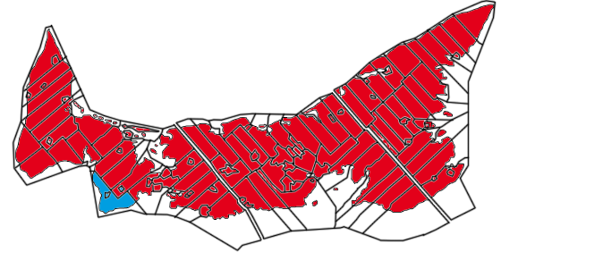 Linguistic map of the province of Prince Edward Island (source: Statistics Canada, 2006 census). red - English majority, less than 33% French orange - English majority, more than 33% French blue - French majority, less than 33% English green - French majority, more than 33% English brown - other (aboriginal) grey - data not available